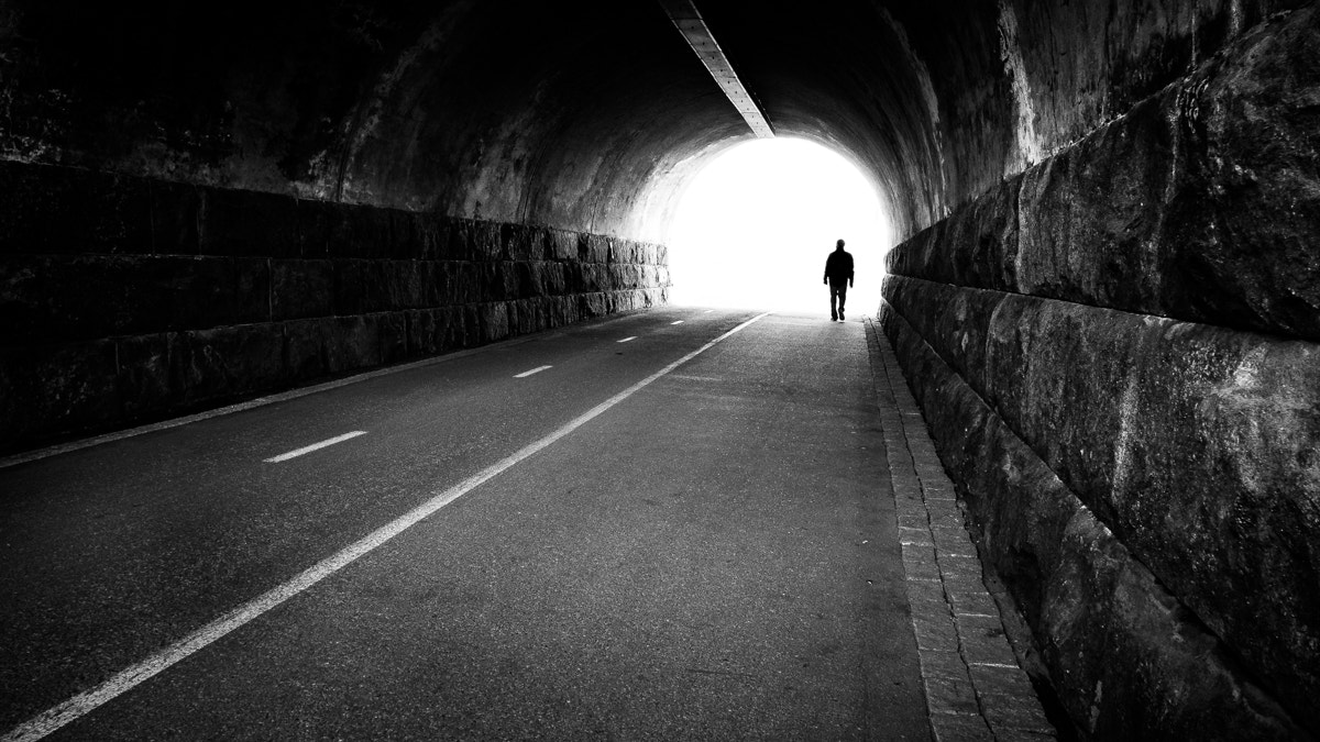 500px provided description: If you like my pictures please support me buying a print from my shop thanks! You can follow me on [#city ,#street ,#contrast ,#bw ,#europe ,#urban ,#black and white ,#man ,#white ,#photo ,#fuji ,#monochrome ,#black ,#leading lines ,#lines ,#tunnel ,#photography ,#blackandwhite ,#helsinki ,#finland ,#candid ,#faceless ,#fujifilm ,#streetphotography ,#18mm ,#geotagged ,#27mm ,#xt10 ,#fujix ,#fuji 18mm ,#fujixt10 ,#fuji xt10]